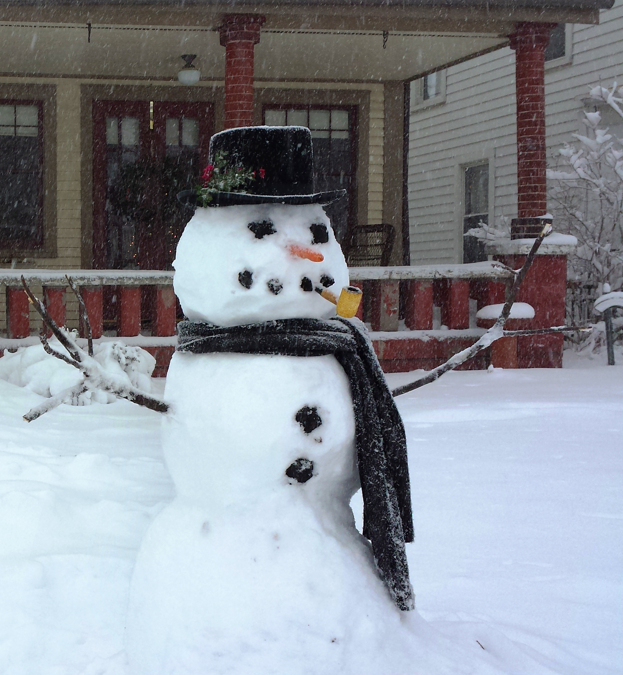 a classic style snowman in Winona Lake, Indiana, USA. The snowman has a top hat, a carrot nose, a corncob pipe, charcoal for the eyes and mouth and buttons on the body, branches on the sides for arms, and a scarf.